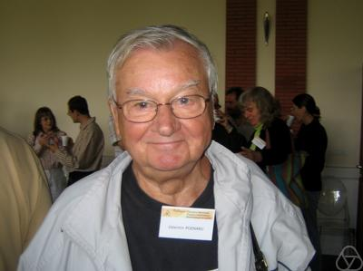 Valentin Poénaru 2007 in Bures-sur-Yvette. "Differential Geometry, Mathematical Physics, Mathematics and Society" - 60th Birthday Conference Jean Pierre Bourguignon